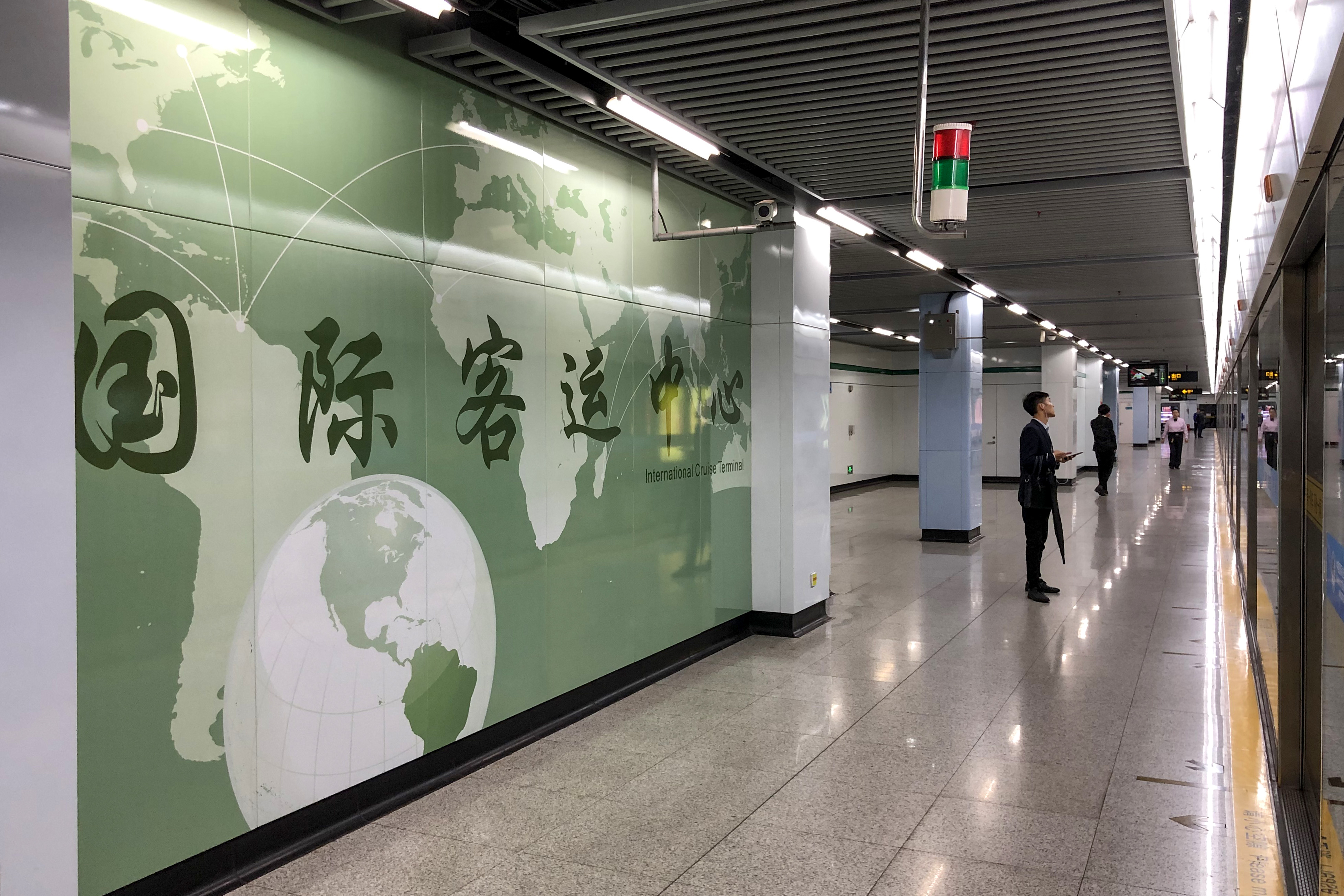 Not starry at all on the platform.